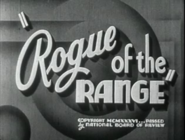 Title card of the American western film Rogue of the Range (1936). The film is now in the public domain.